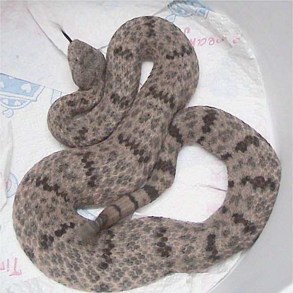 Crotalus lepidus